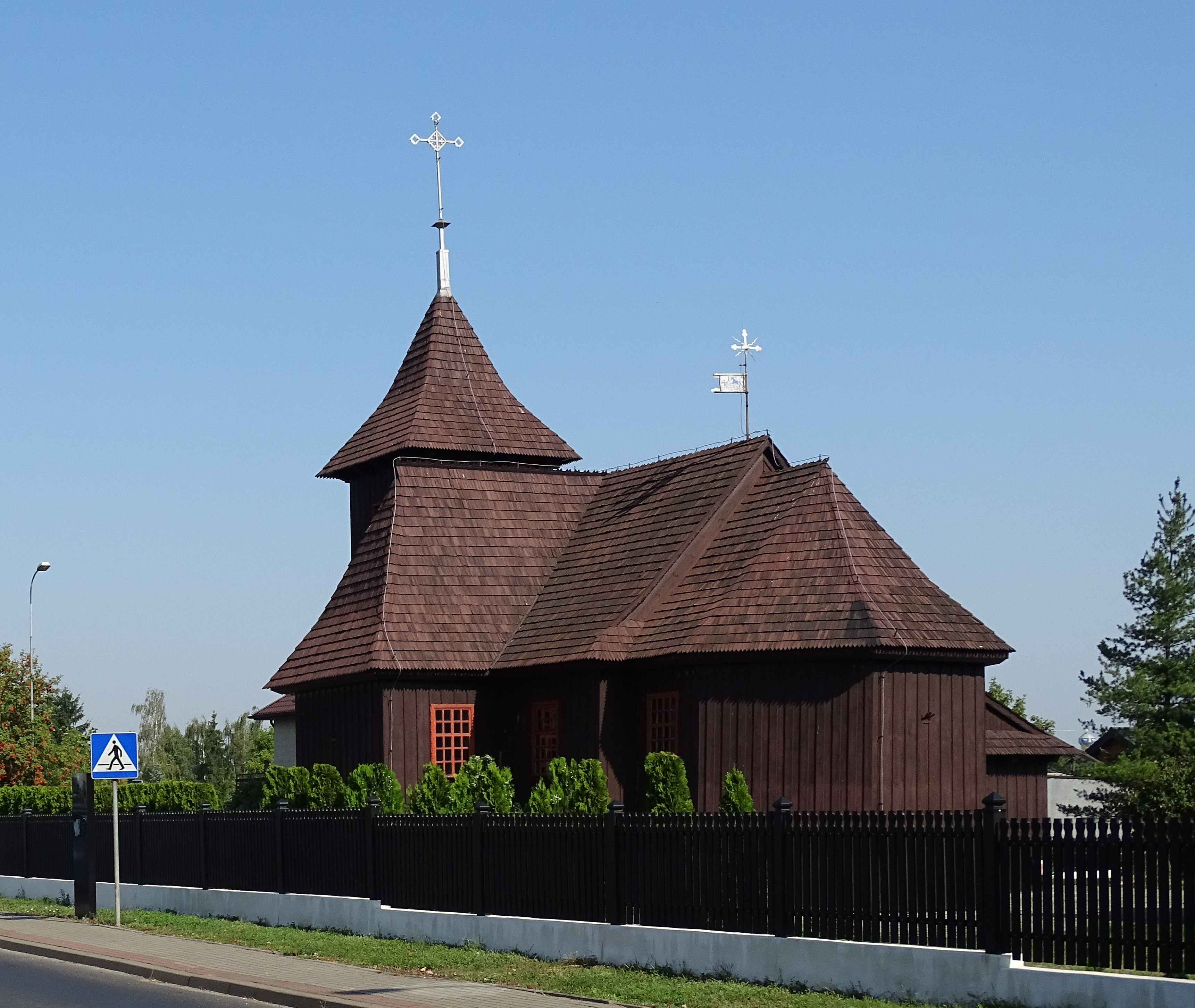 Słupca, Greater Poland. Church of Saint Leonard. Erected in the 16th century, extended in the 18th c.